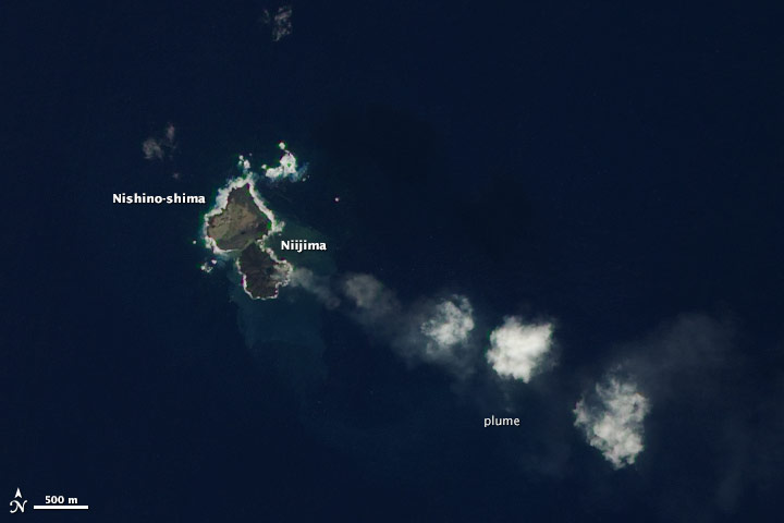 Volcanic island 'Niijima' merges with older Nishino-shima.